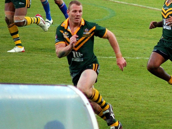 Luke Lewis